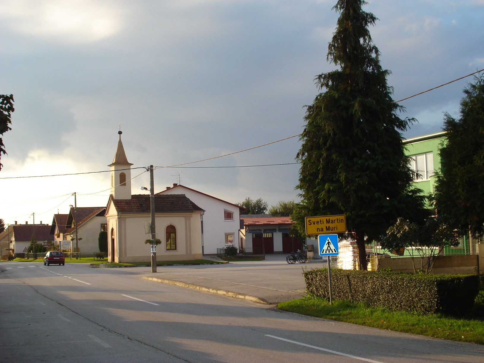 Sveti Martin na Muri (Međimurje County, Croatia) - east entrance